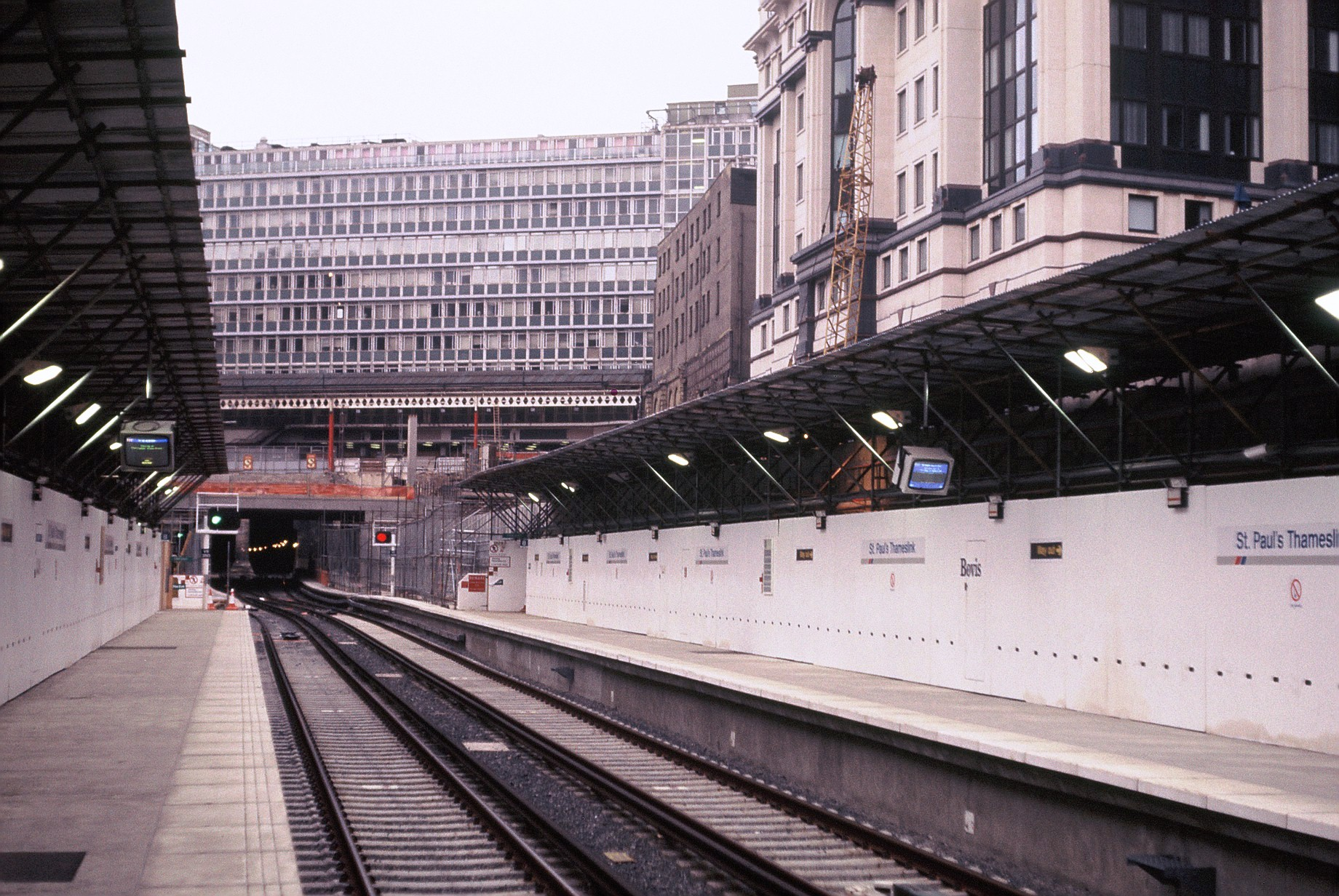 St Paul's Thameslink looking towards the remains of Holborn Viaduct railway station.